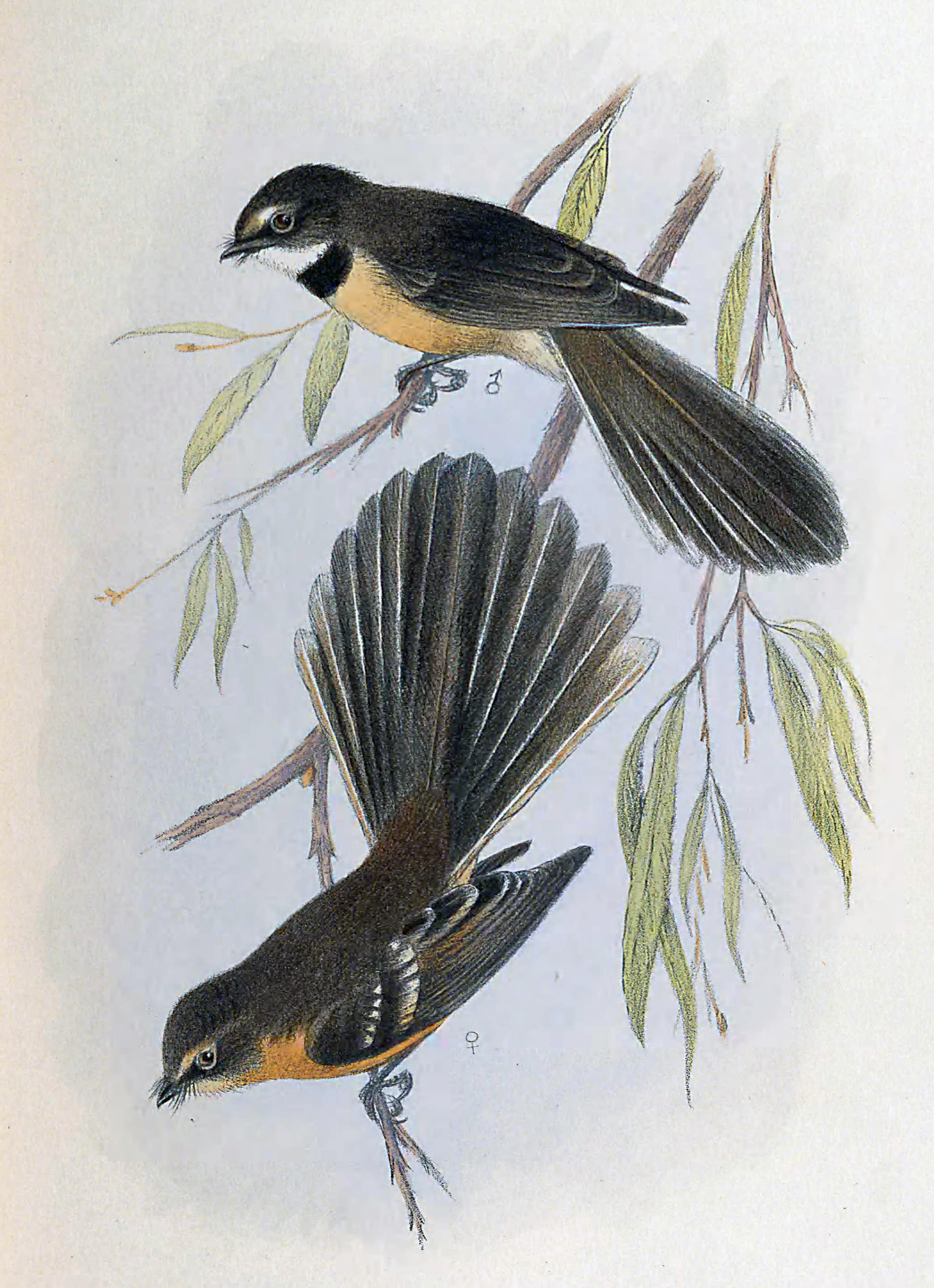 Hand coloured lithograph (circa 1928) of (Rhipidura cervina) which is now a synonym of the Lord Howe Fantail (Rhipidura fuliginosa cervina)(top) & Norfolk Island Fantail (bottom) from The Birds of Australia (1910-28) by Gregory Macalister Mathews (1876-1949) - artwork by Henrik Gronvold (1858–1940) a Danish bird illustrator.